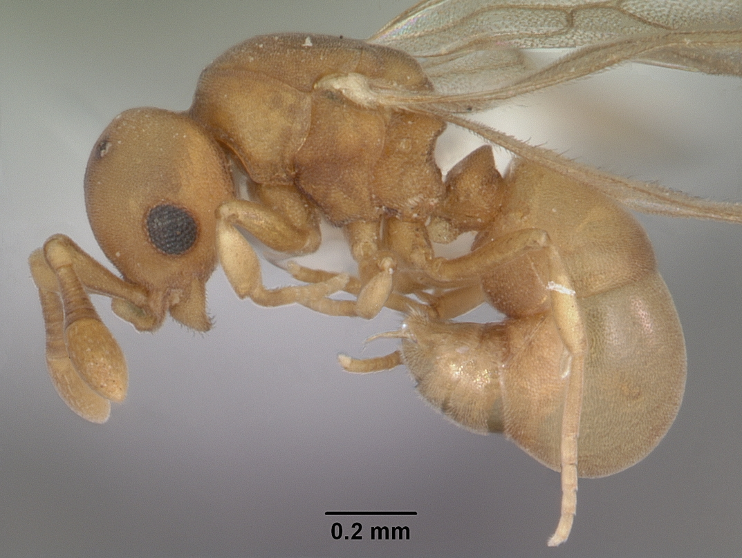 Profile view of ant Discothyrea testacea specimen casent0103848.